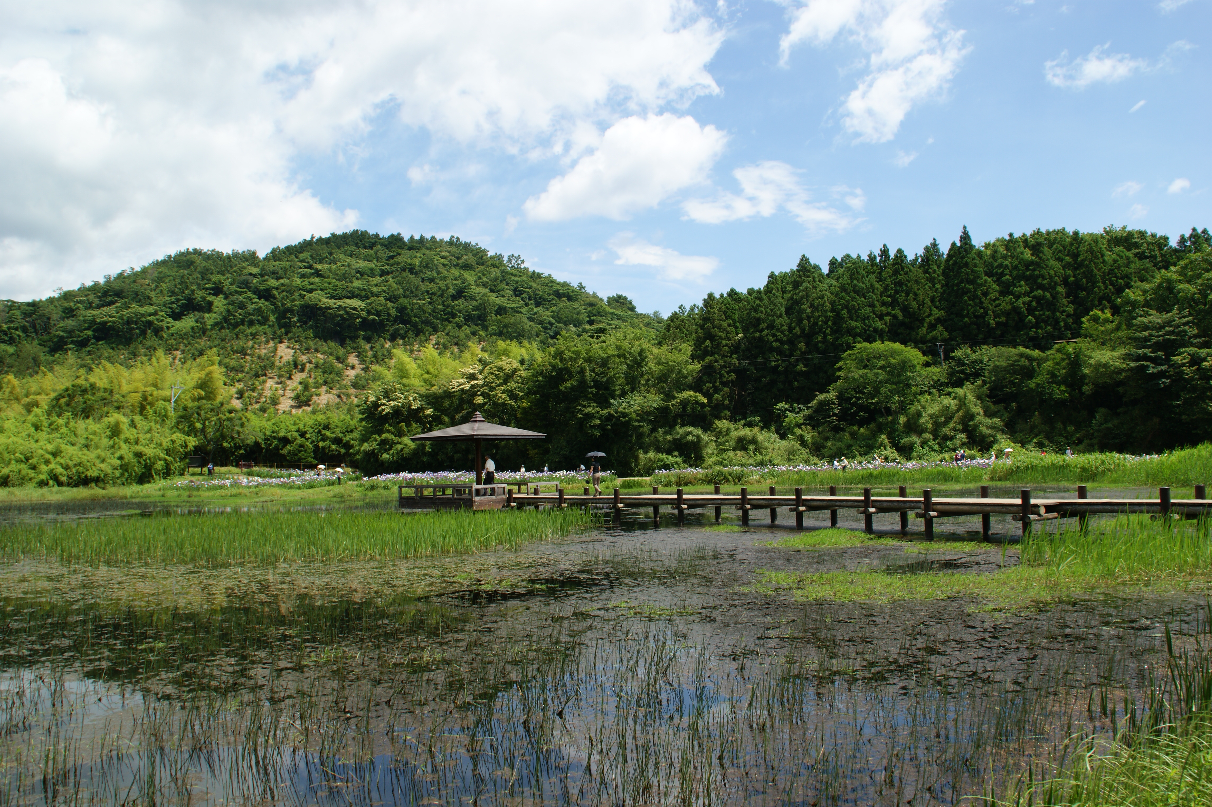 Lake Kagurame.(Beppu City, Oita Prefecture, Japan)